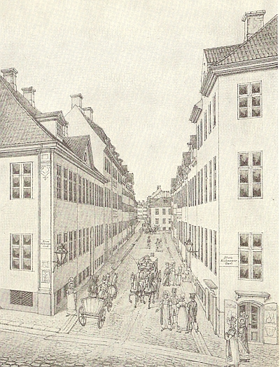 Detail from drawing by H. G. F. Holm showing the street Klareboderne in Copenhagen, Denmark